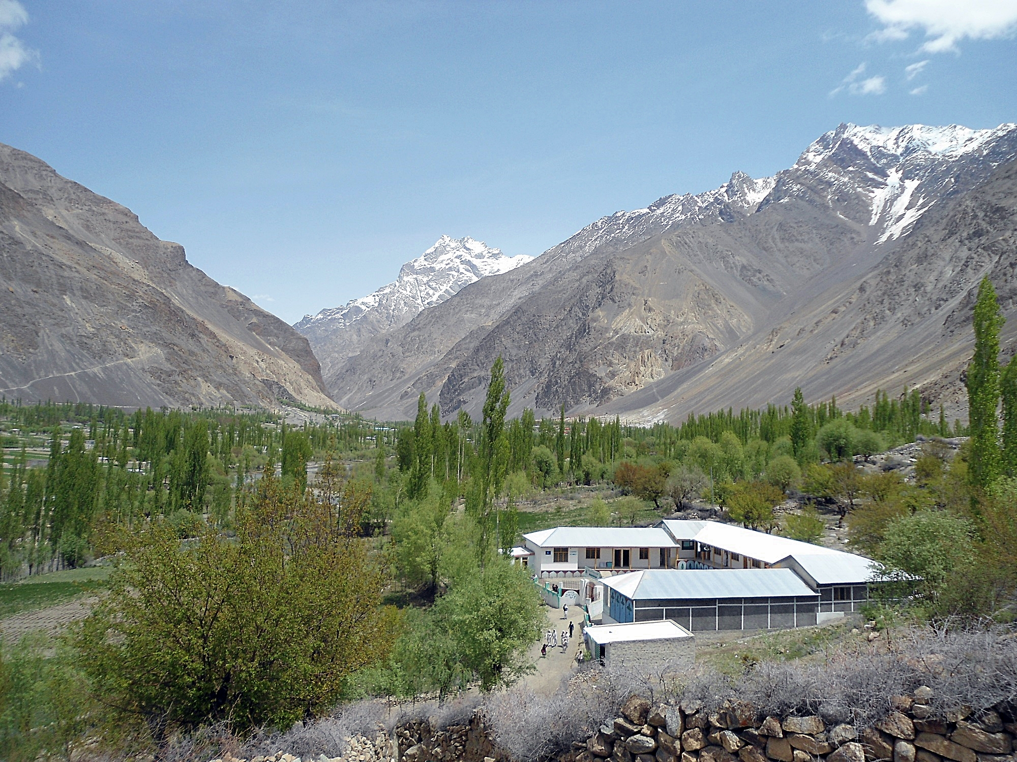 A small yet very beautiful privately funded school in hunder village